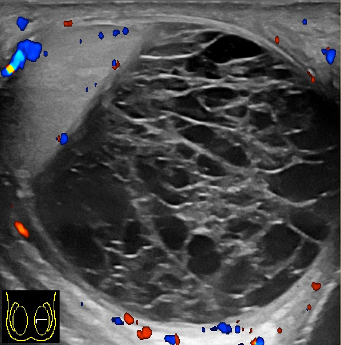 Scrotal ultrasonography of a 58-year-old man with non-traumatic swelling of the left scrotum for a couple of weeks. It shows a hematocele, as a fluid volume with multiple thick septations. The hematocele displays no blood flow on Doppler ultrasonography. A pyocele has a similar appearance, but was excluded by lack of inflammation.The testicle is pressed to the side (upper left in image).